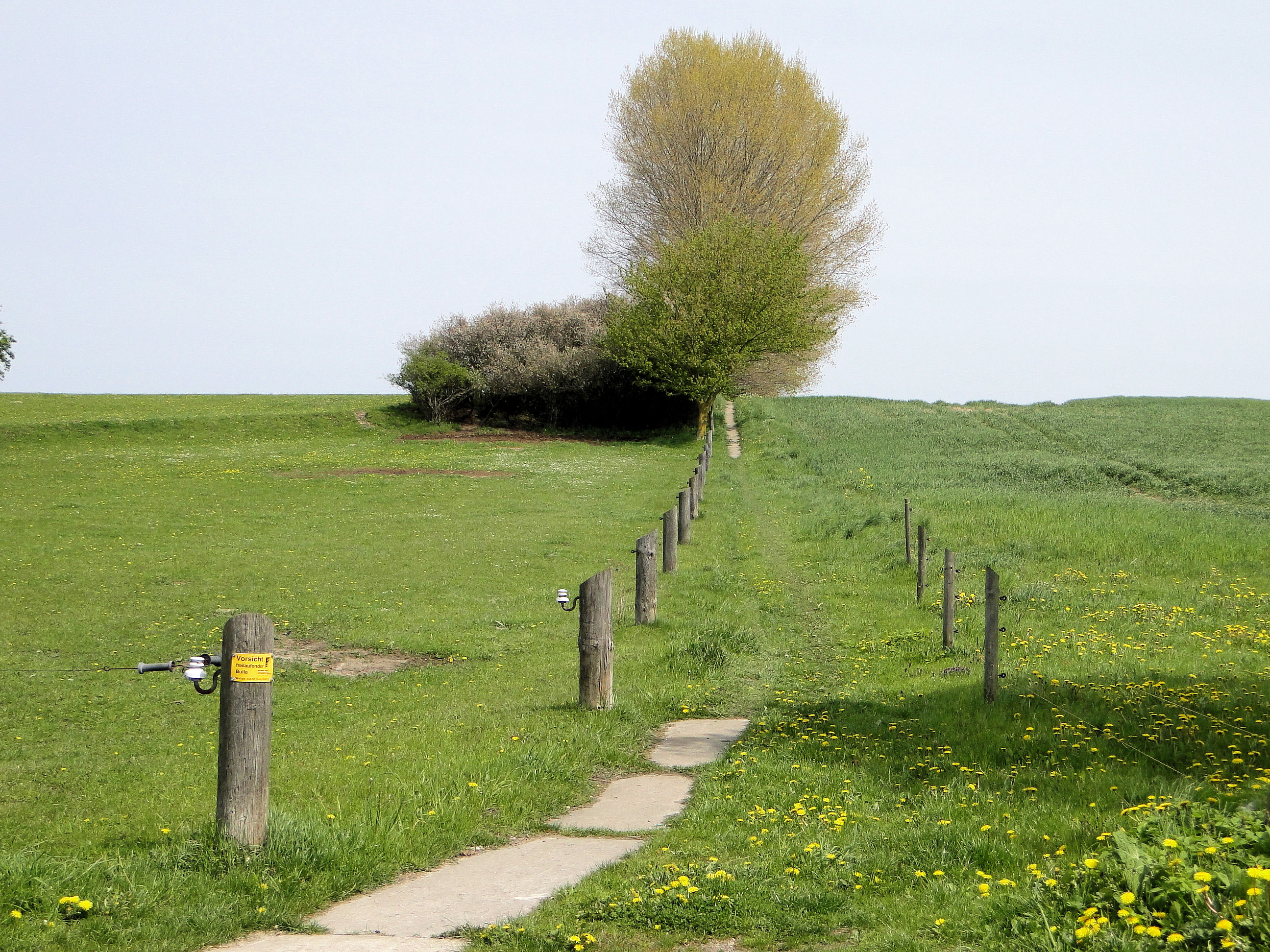 Pasture in Wittenbeck, disctrict Bad Doberan, Mecklenburg-Vorpommern, Germany